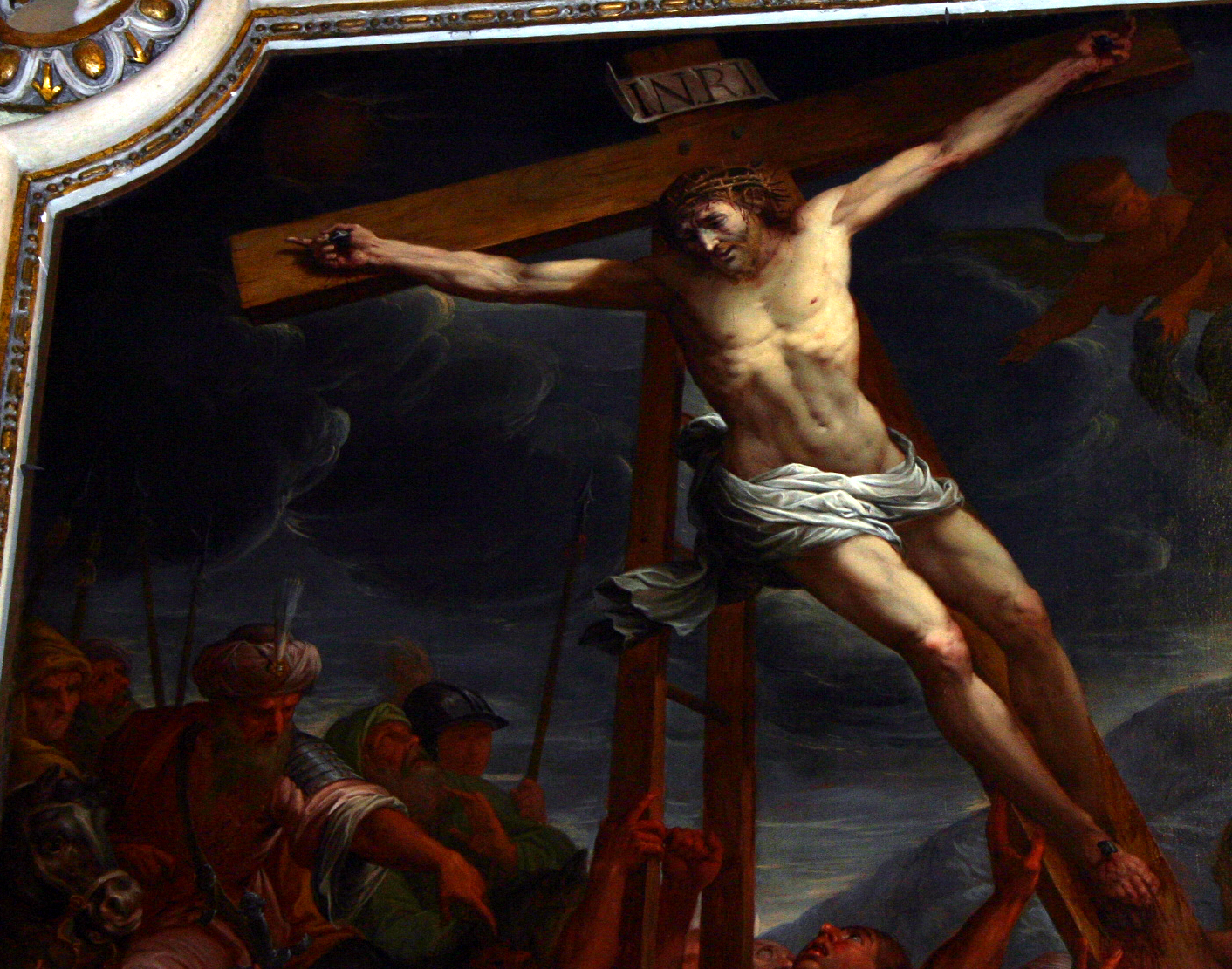 Antonio Busca (1625-1684), Crucifixion (detail). Painting in the ceiling of the Pietà chapel, in the left hand transept of Saint Mark church in Milan (Italy). Picture by Giovanni Dall'Orto, April 14 2007.